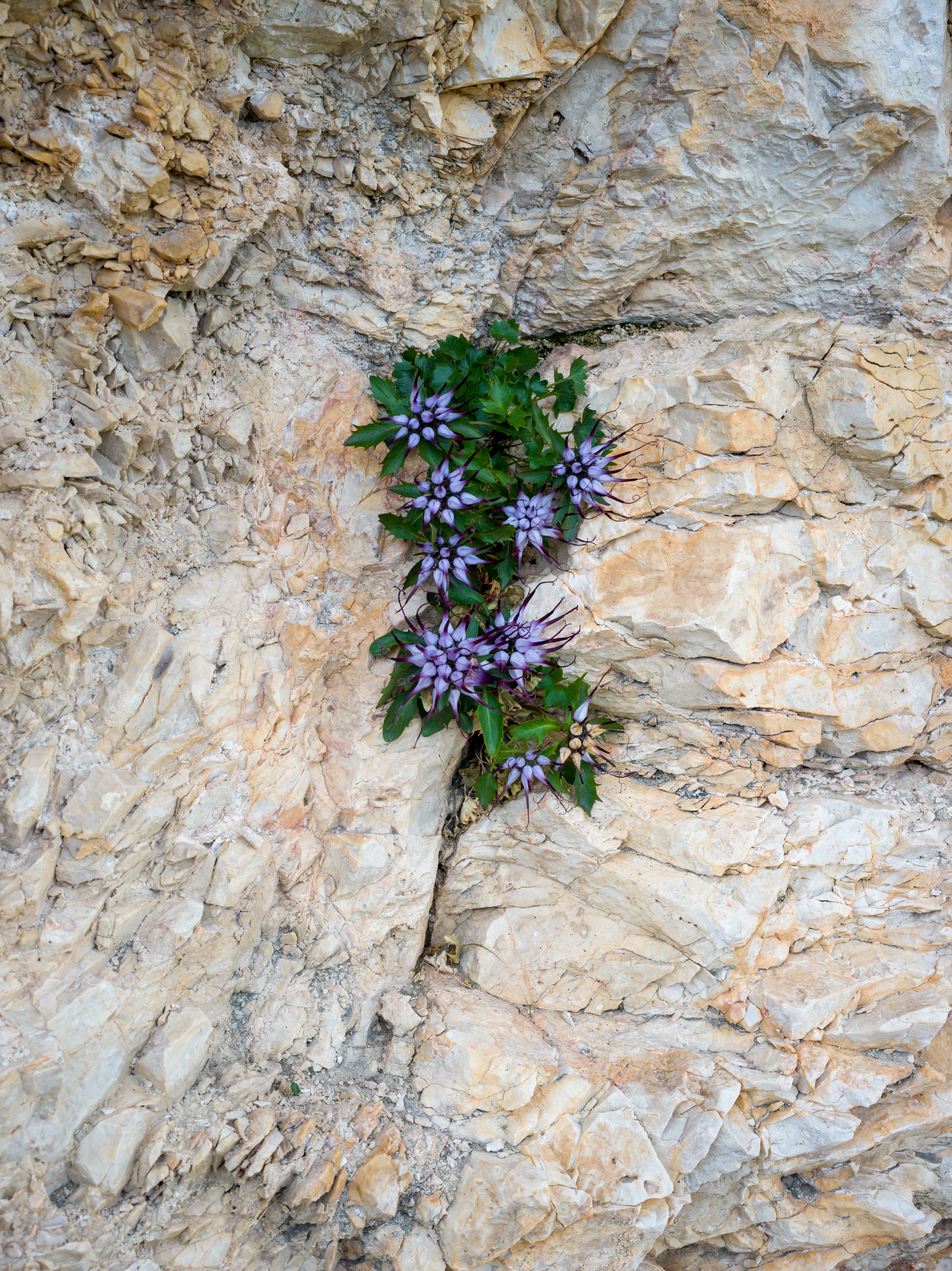 Physoplexis comosa on Stevia Mountain in the Puez-Geisler Nature Park, Dolomites UNESCO World Heritage Site.